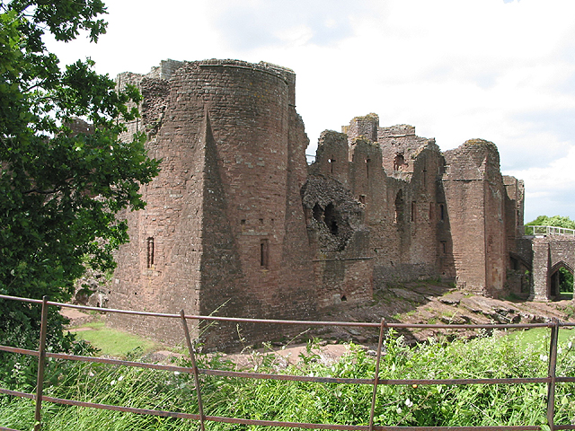 Goodrich Castle, the SE tower